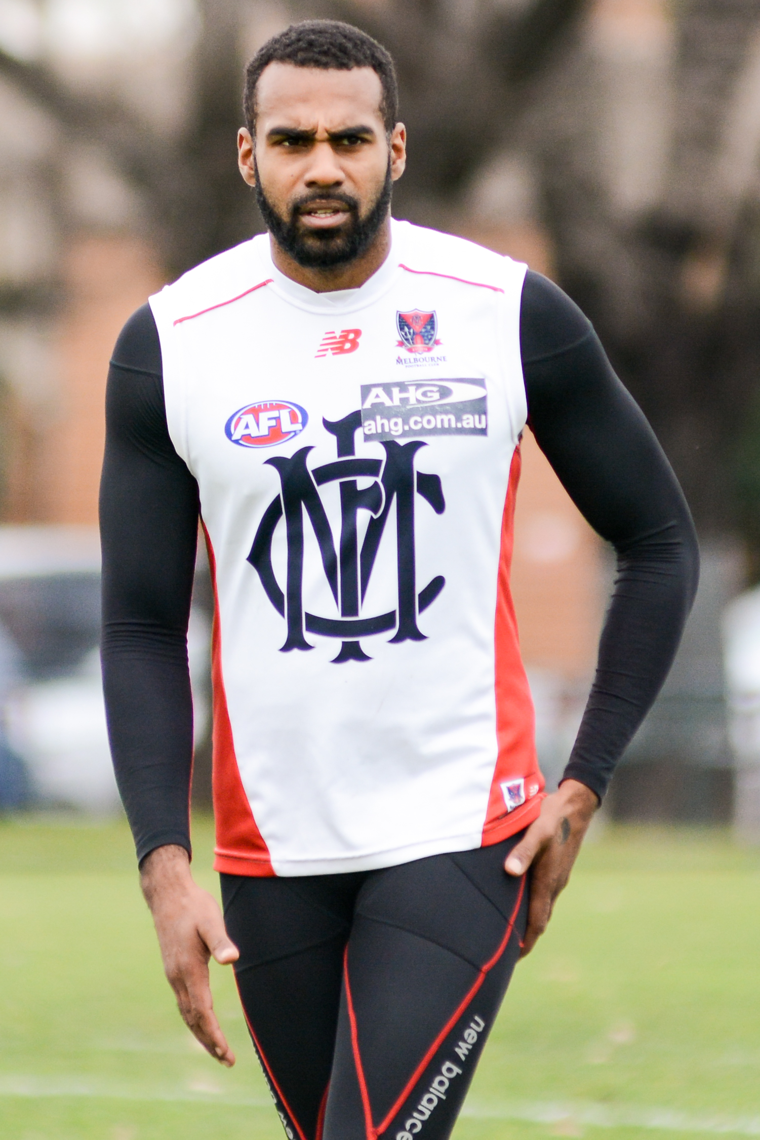 Heritier Lumumba at training during July 2015